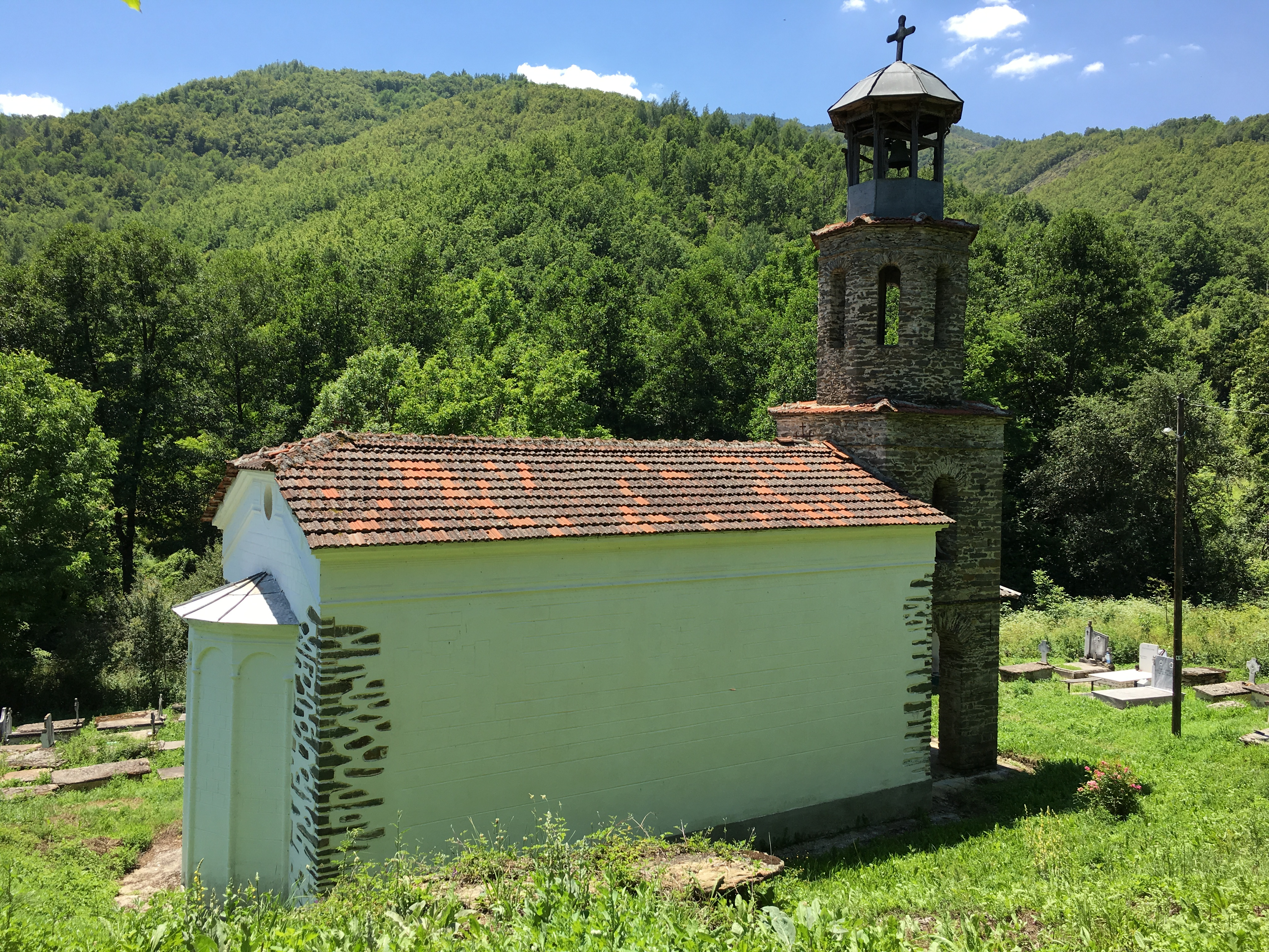 St. Athanasius Church in the village of Topolnica